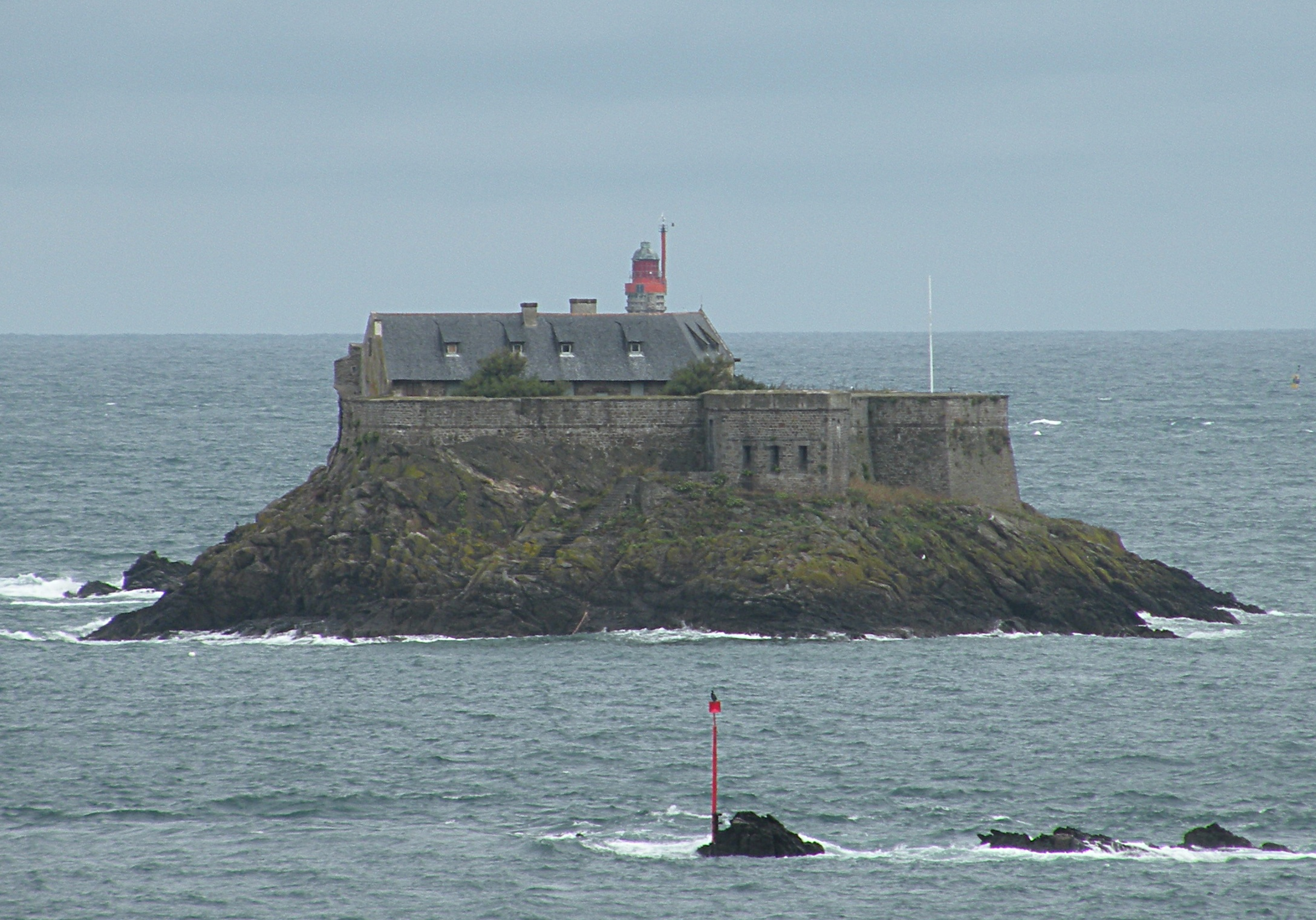 Harbour island’s fort in Dinard.